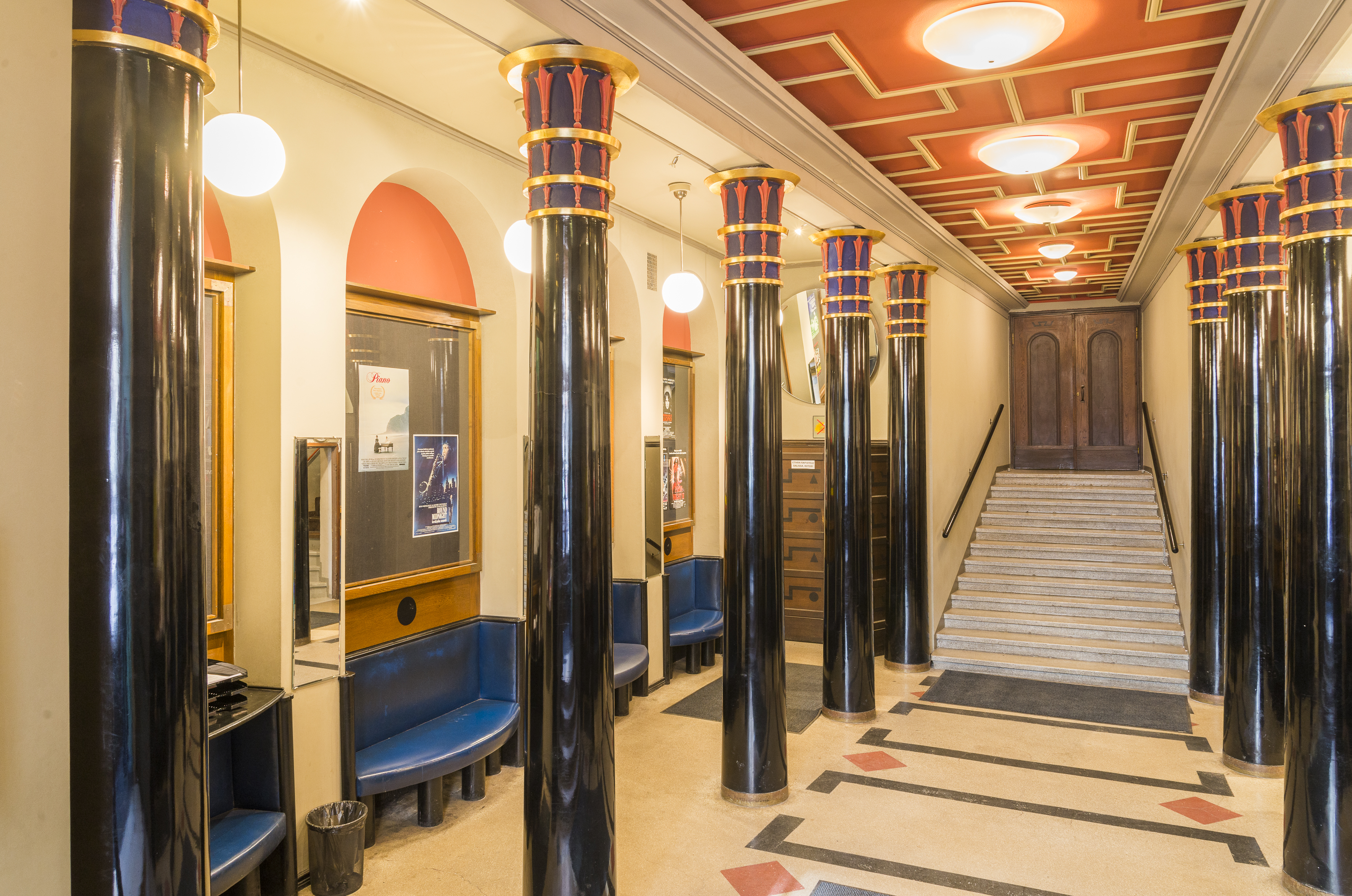 Photograph of the lobby of Orion movie theatre in Helsinki.